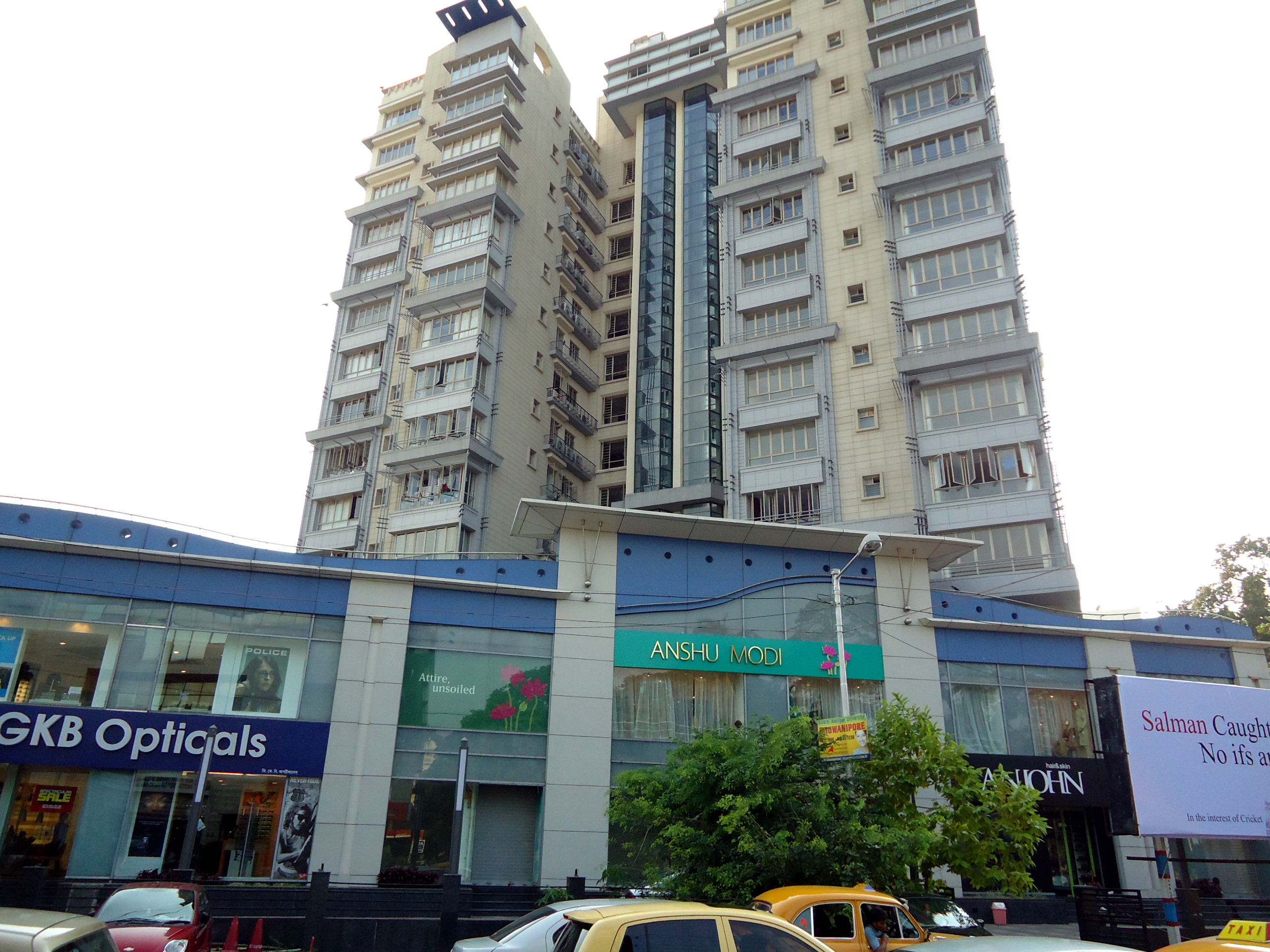 Astral Apartments & Atria shopping centre